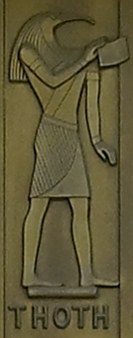 Sculpted bronze figure of Thoth by Lee Lawrie. Doors, east entrance, Library of Congress John Adams Building, Washington, D.C.